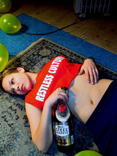 An photo of an unknown participant in a restlessculture t-shirt taken during one of Cary Peppermint's networked performances titled 'Soylove Exposure' Circa 1999.